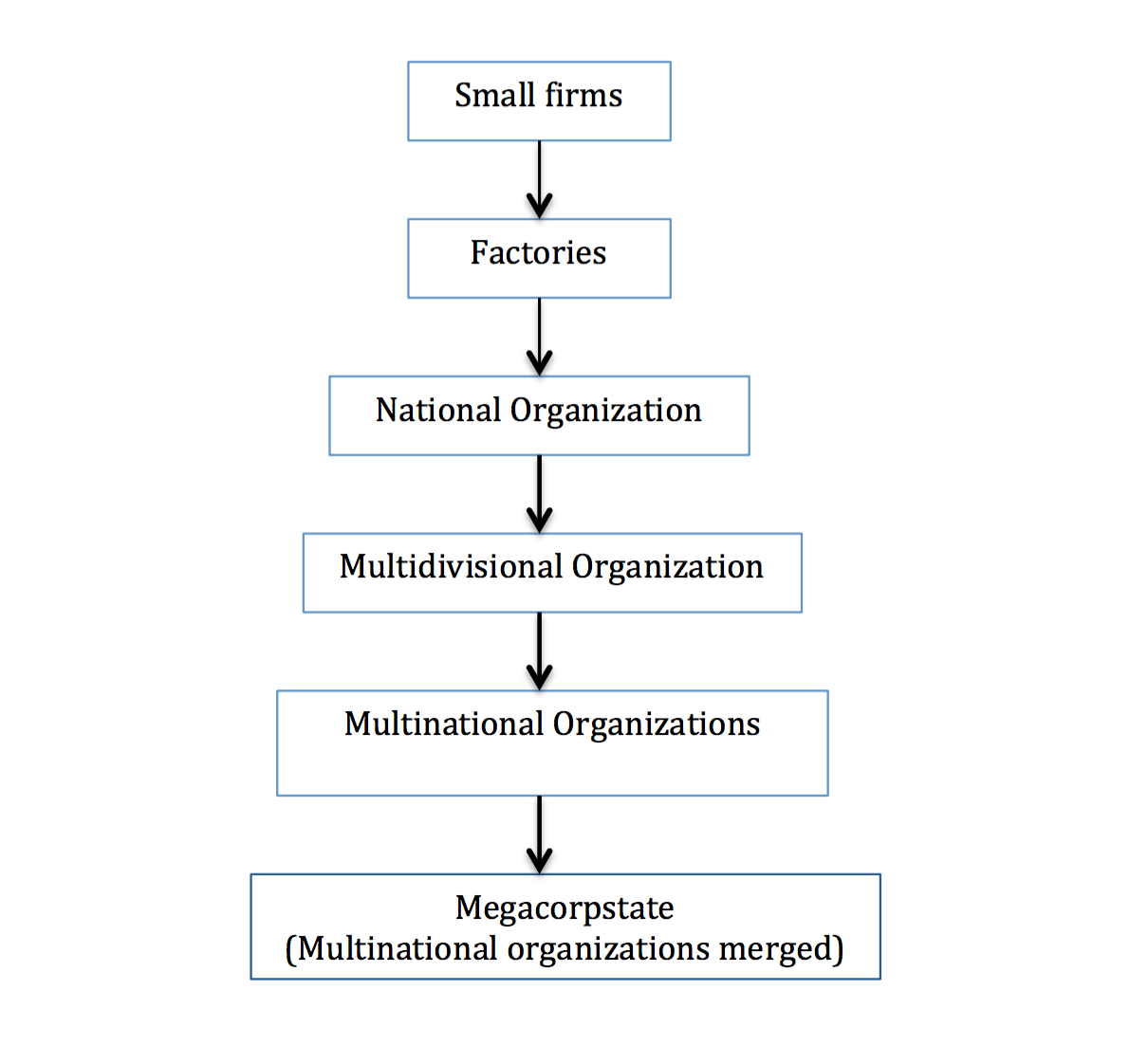 Evolution into megacorpstate